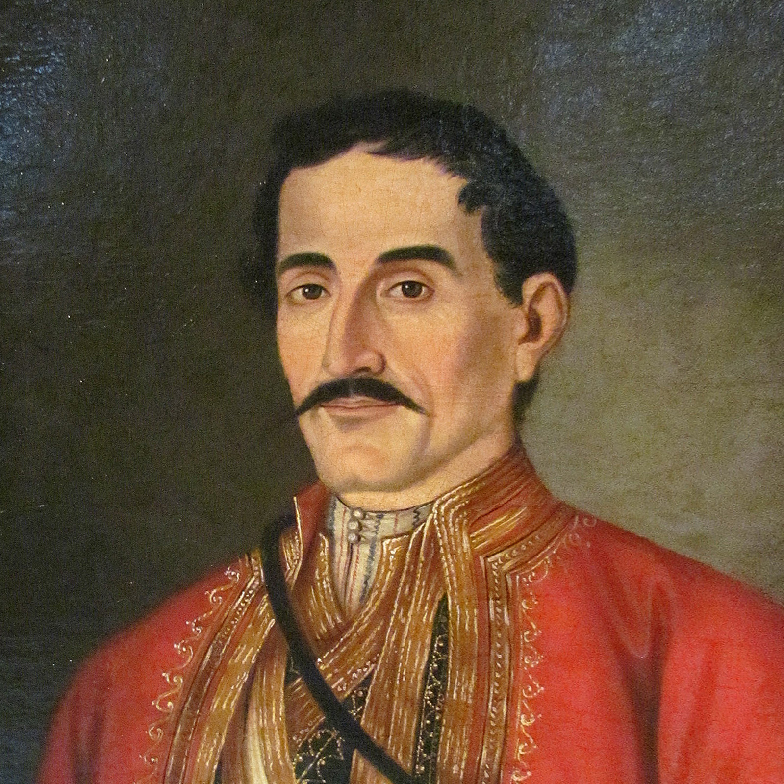 Jevrem Obrenović by Georgije Bakalović 1835